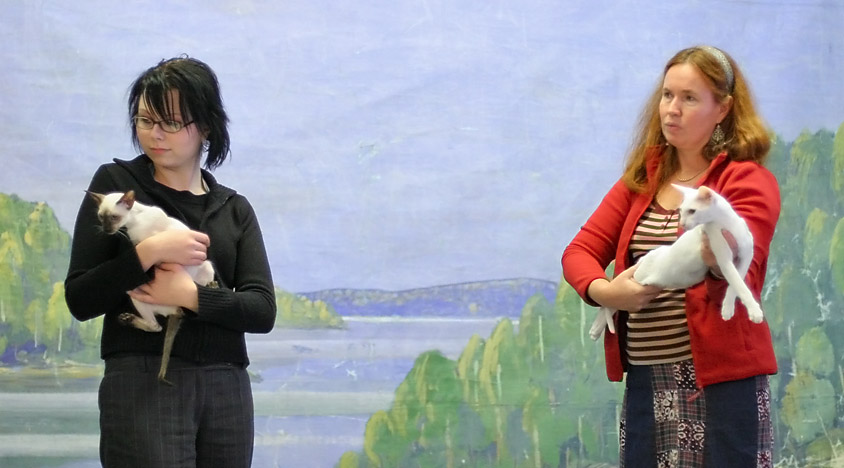 Foreign White (SIA w 67) and sealpoint siamese in cat show of Karkkila. Arhantin Arif [SIA n] Jaguars Canberra [SIA w 67]